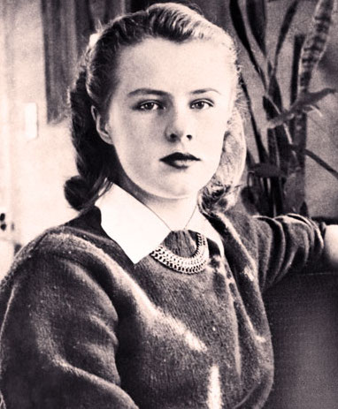 Circulated photograph of Paula Jean Welden; clipping from missing persons flyers and also publicized on The Charley Project